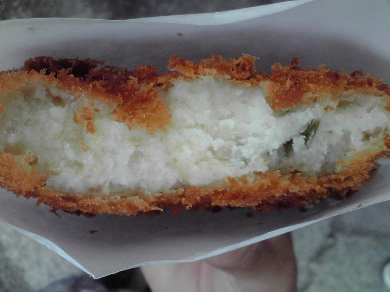 This is a special horseradish croquette which is made by Daio Wasabi Farm.